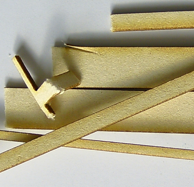 wood pulp board, mainly used for building scale models, 1 mm thick